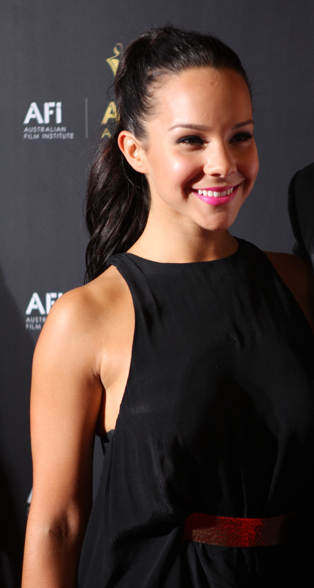 Dena Kaplan at the 2012 AACTA Awards in Sydney, Australia